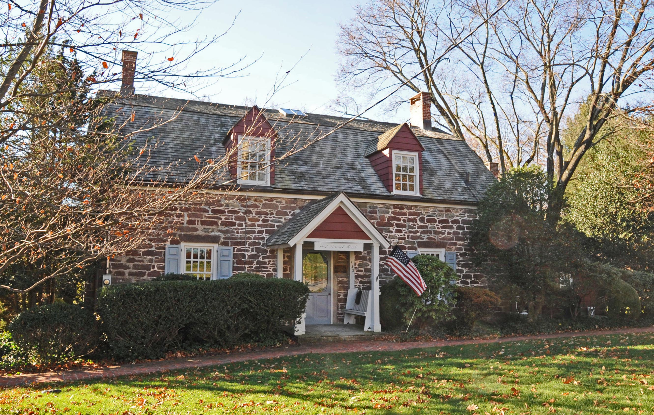 BUILT CIRCA 1800 BY JOHN G. ACKERSON AND HIS SON. THE PROPERTY WAS DEVELOPED BY THE FAMILY FOR 100 YEARS AND A GENERAL STORE PLUS A DISTILLERY AND WOOLEN MILL WERE BUILT BESIDE THE PASCACK CREEK..